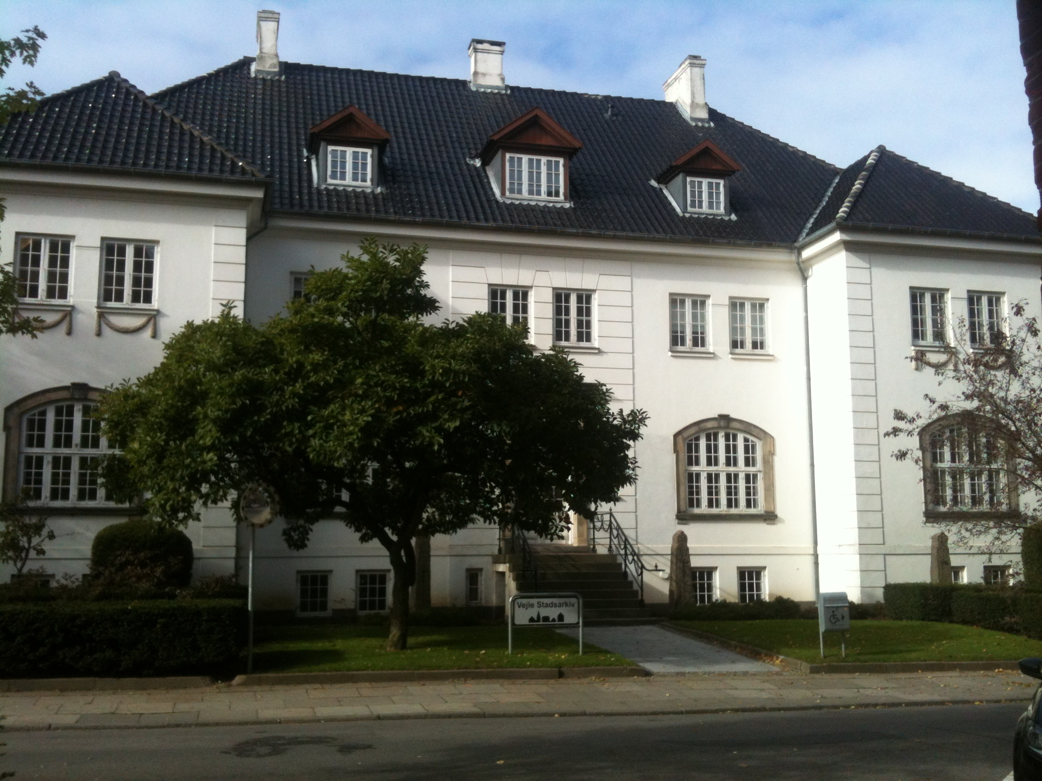 Vejle Stadsarkiv (Public Records) - Vejle - DenmarkDansk: Vejle Stadsarkiv - Vejle - Denmark